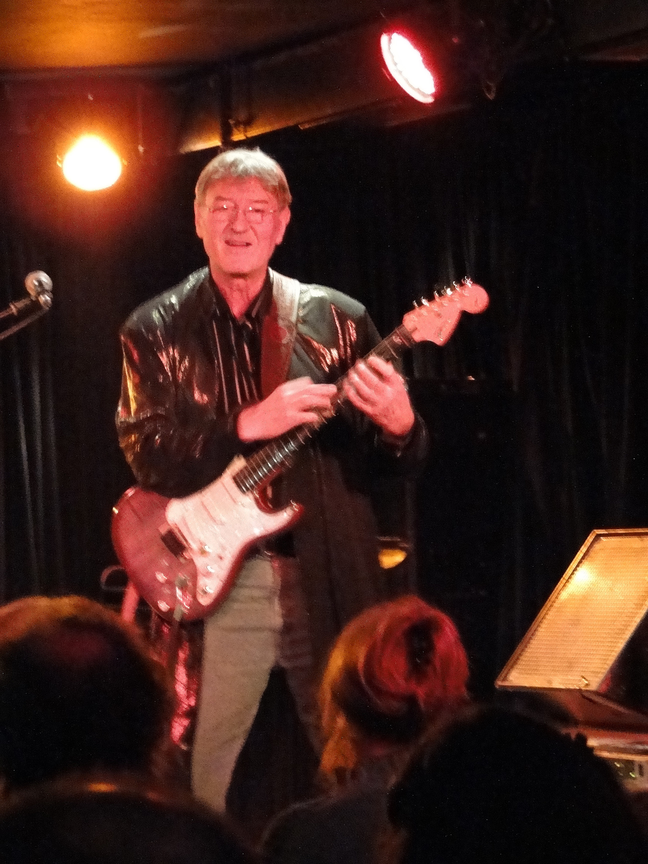 Enver Izmailov 2009 at "Hofheimer Jazzkeller", Hofheim, Hesse, Germany.